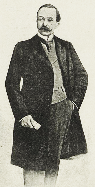 Miguel II of Braganza